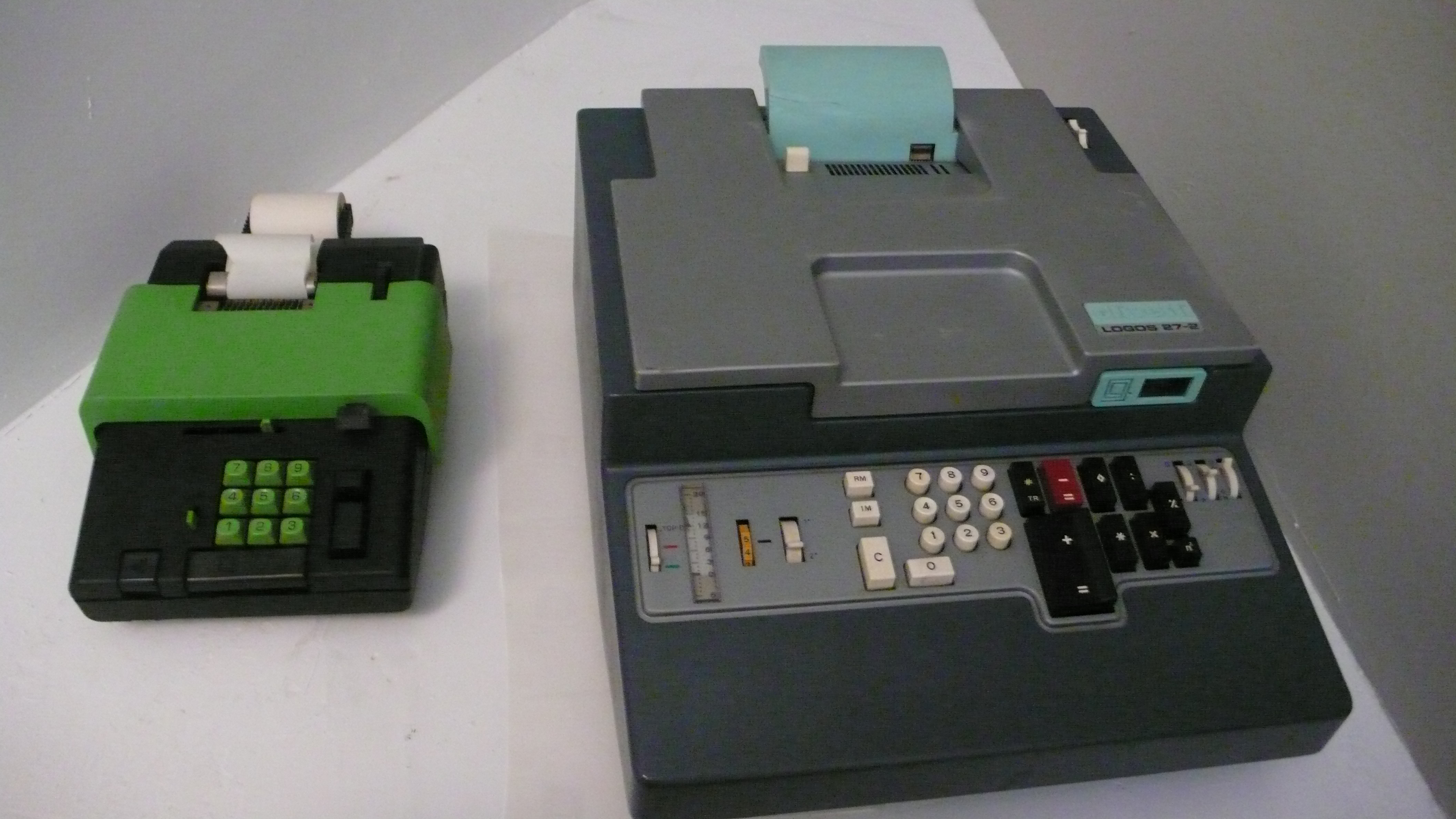 The Olivetti Logos 27-2 by Ettore Sottsass calculator on the right and Olivetti Summa 19 calculator by Ettore Sottsass and Hans von Klier on the left displayed at the exhibition Olivetti: una bella società in Turin, Italy.